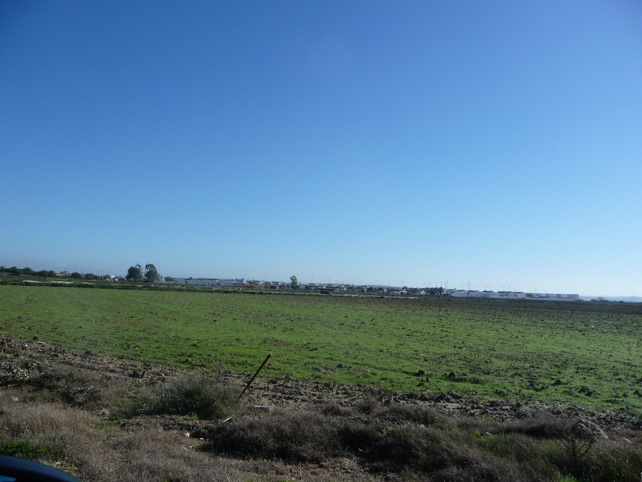 Poblado de Doña Blanca, El Puerto de Santa María (Andalusia, Spain)